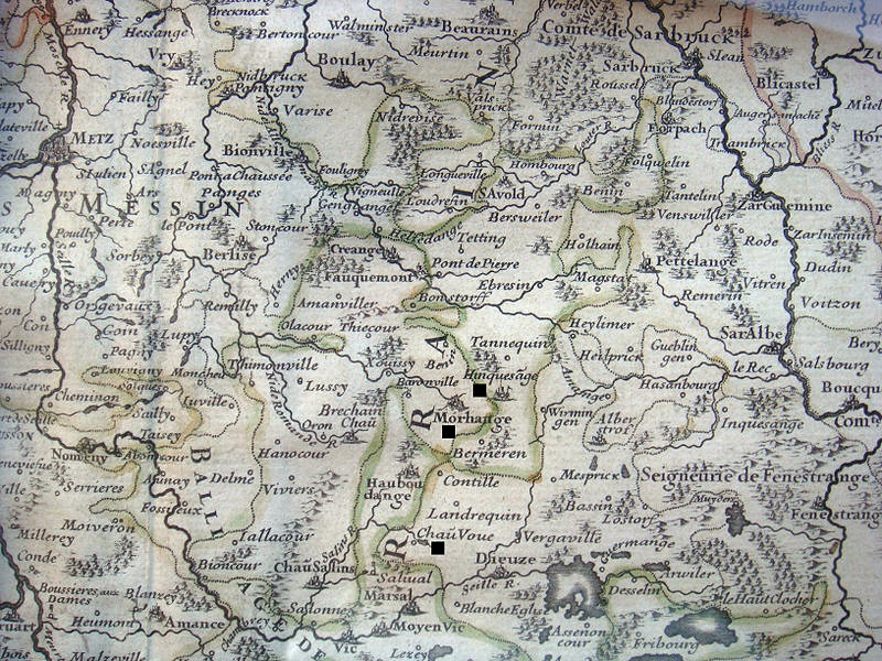 Map of Hingsange, Morhange and Château Voué, former properties of the counts of Helmstatt in the duchy of Lorraine, now département de la Moselle (France)